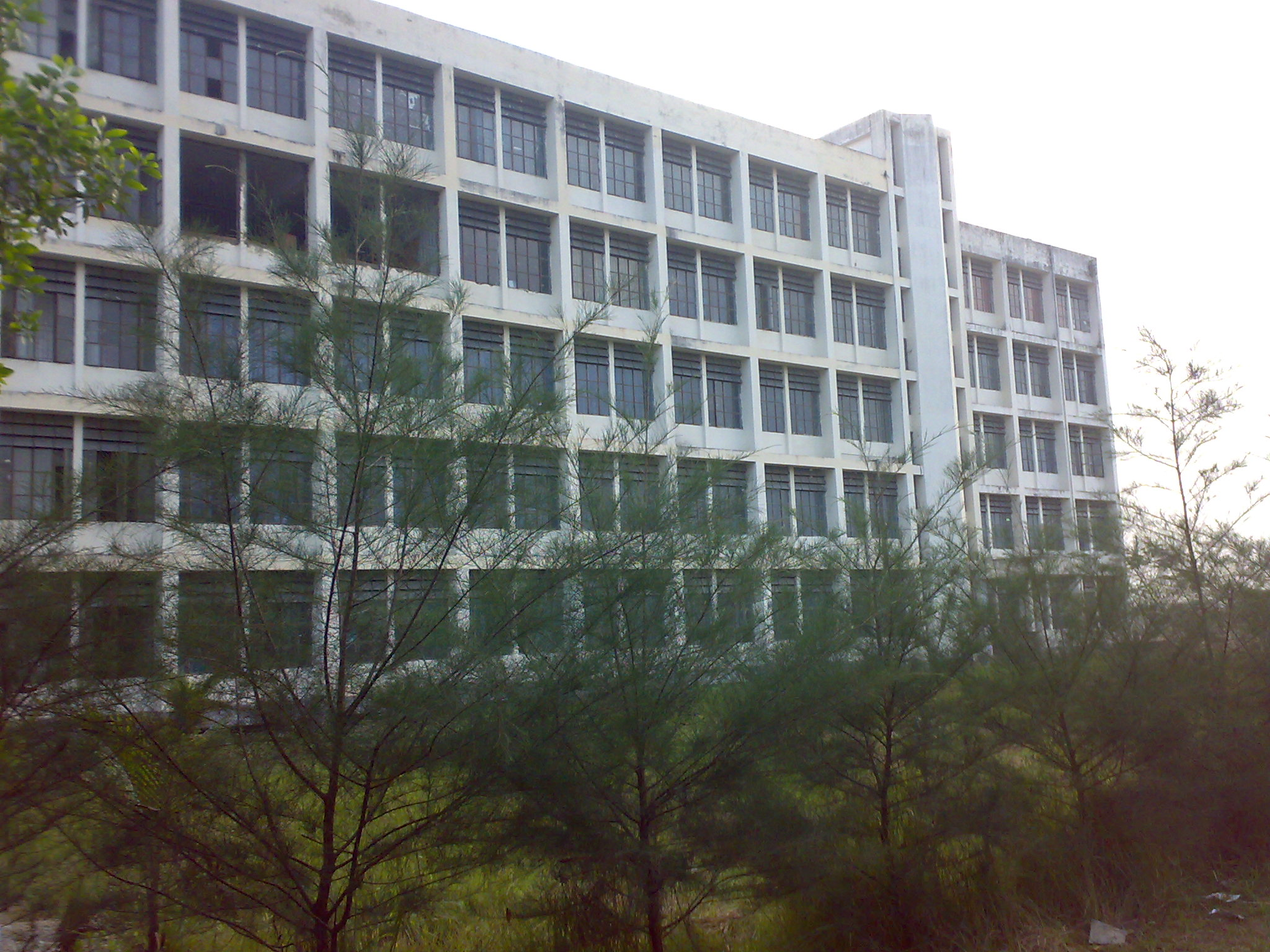 Photo Credit: Ahsan Habib